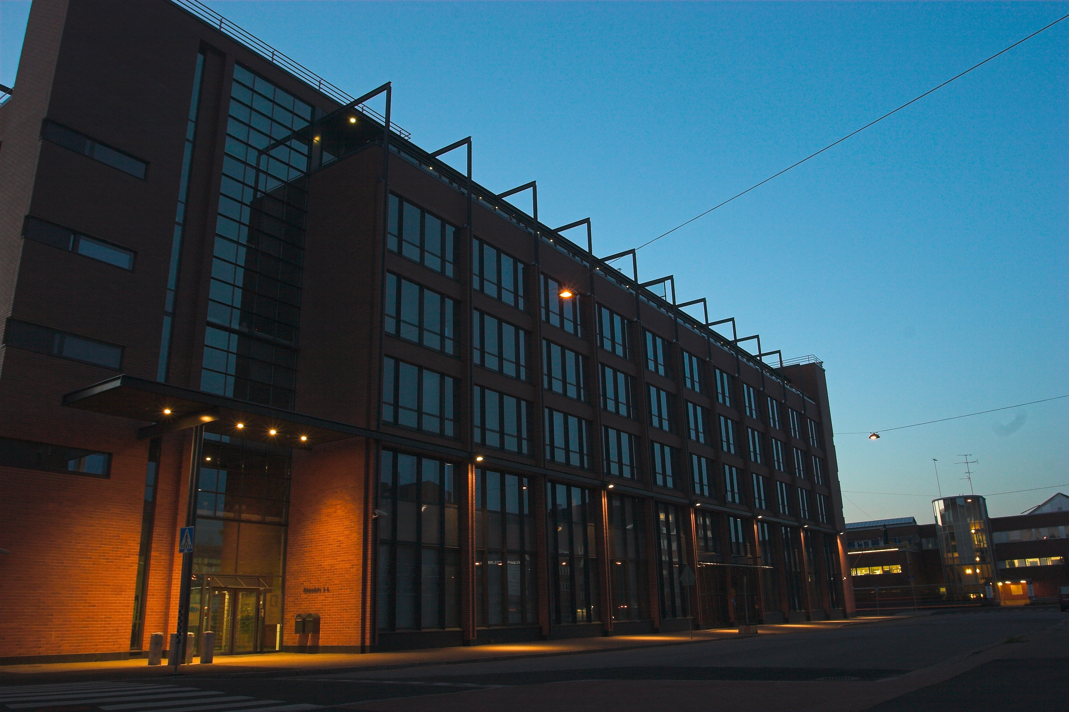 Headquarters of Aspo Oyj at dusk